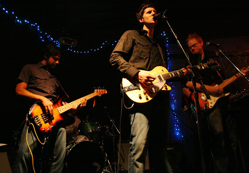 Cartel (band) at the dcist unbuckled tour.